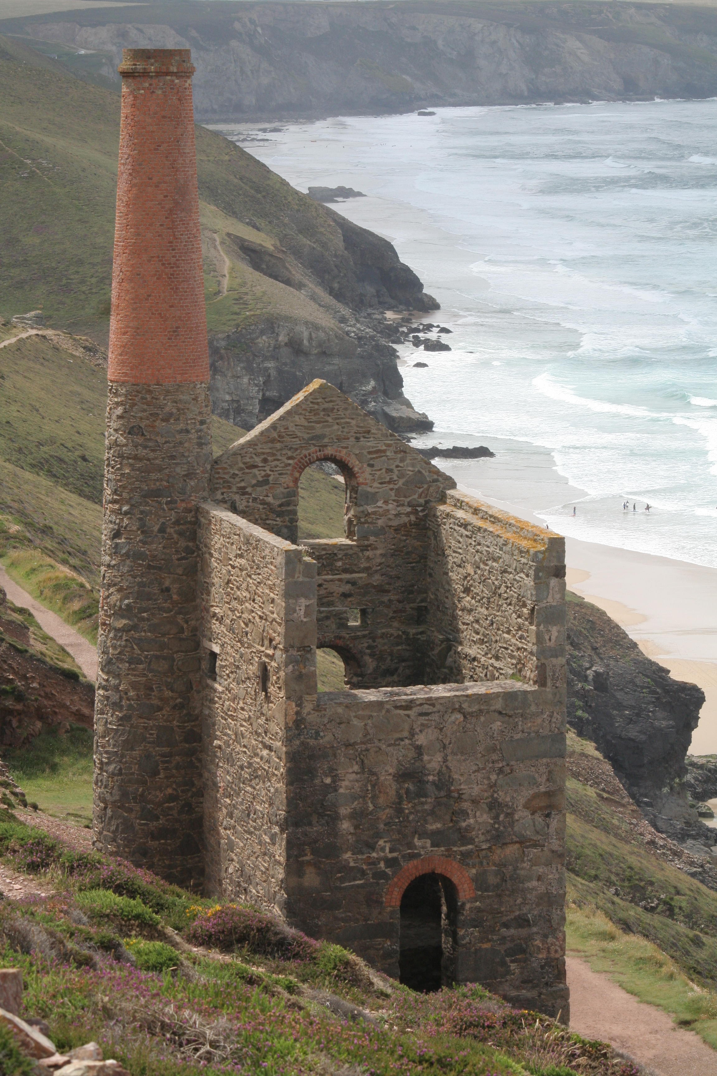 A tin mine on the north Cornish coast between St Agnes and Porthtowan